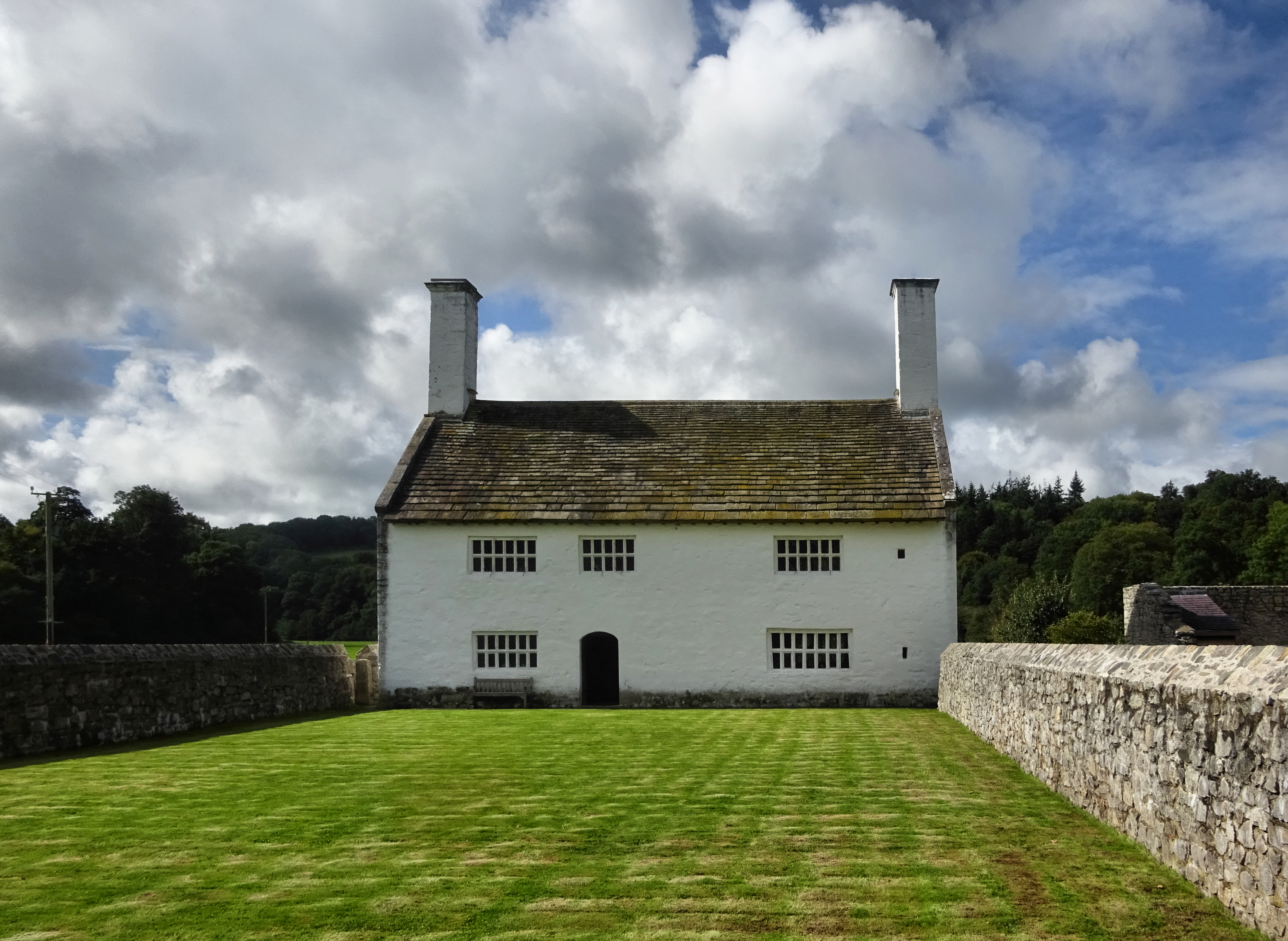 Fron of Dolbelydr 16c manor house, Cefnmeiriadog, Denbighshire, Wales. Home of Henry Salesbury (1561- c.1605) author of 'Grammatica Britannica', London (1593).